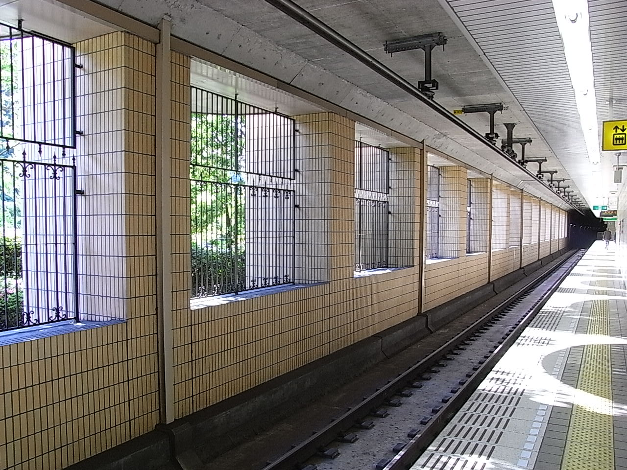 Westward view from the platform of Sendai Subway Asahigaoka Station